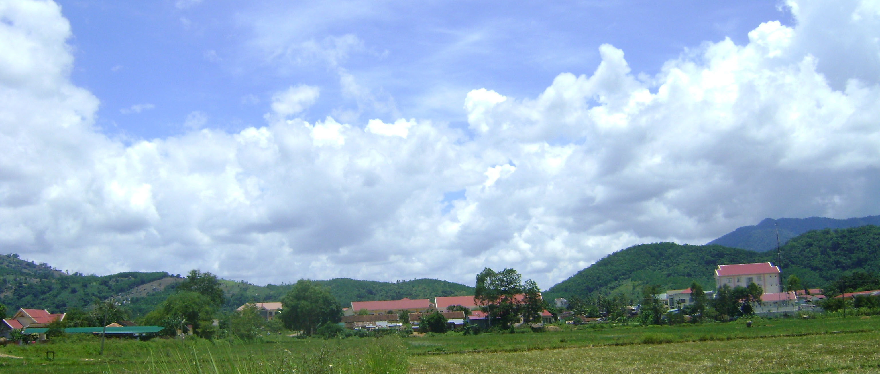 M'Drak town in Viet Nam